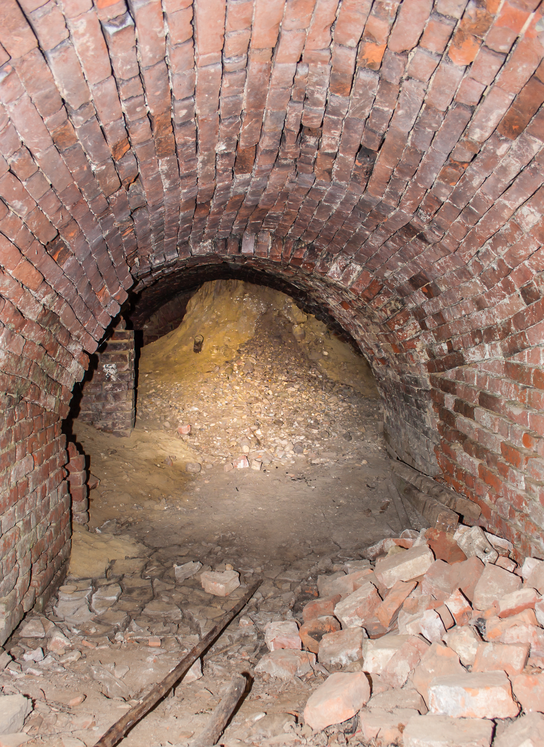 View into the collapsed castle.